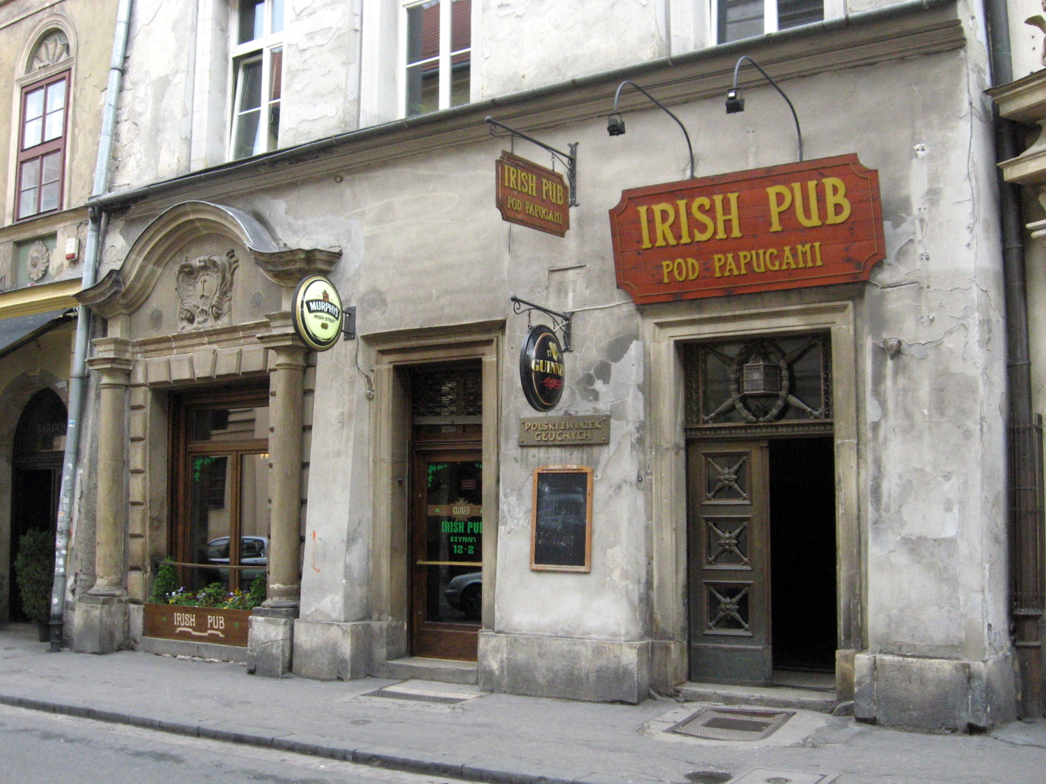 Irish pub, Krakow, Poland